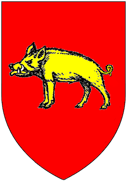 Arms of de Champeaux of Molland-Champson, Devon: Gules, a boar passant or tusked argent (Pole, Sir William (d.1635), Collections Towards a Description of the County of Devon, Sir John-William de la Pole (ed.), London, 1791, p.477)